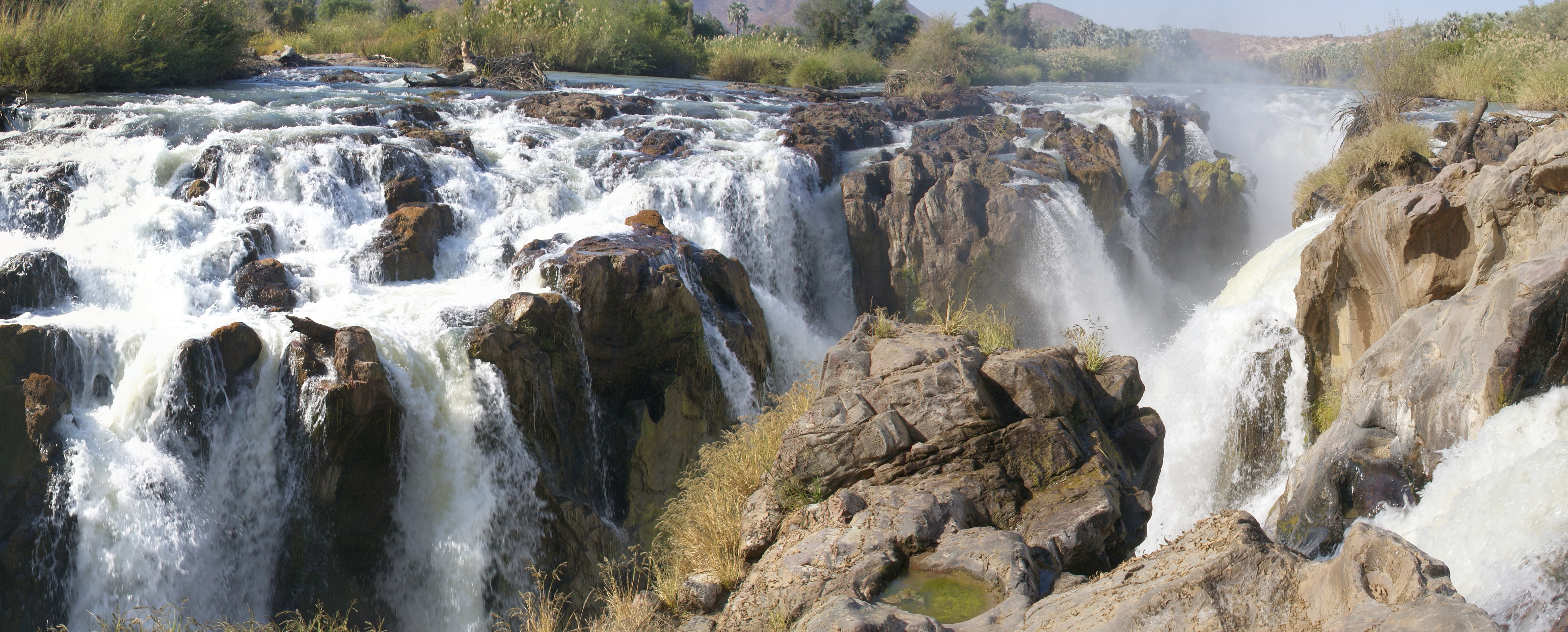 Epupa Falls, main falls on the Kunene river, Namibia. View in interactive viewer